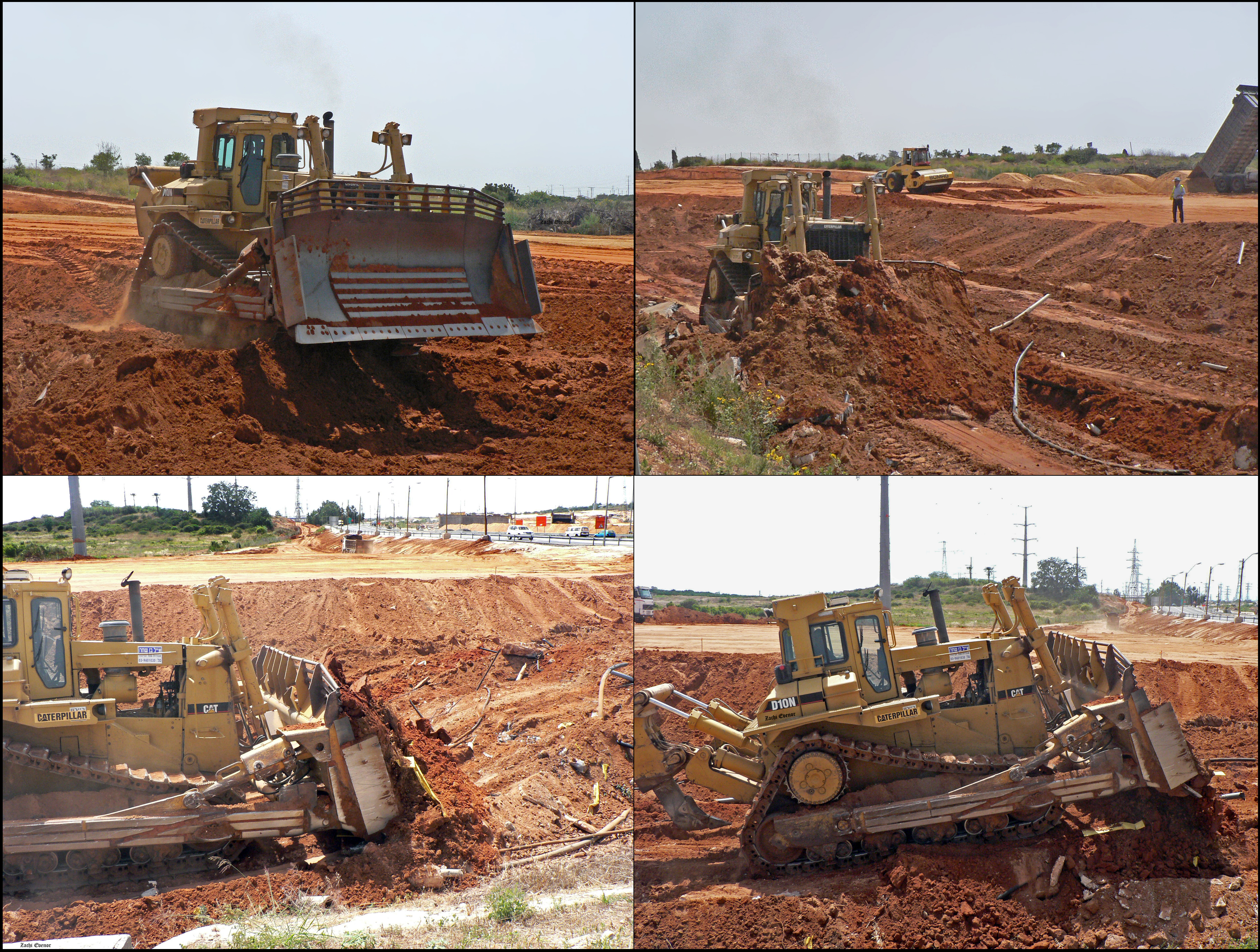 Caterpillar D10N bulldozer doing earthworks for the construction of Road 431 highway in Israel Author: MathKnight